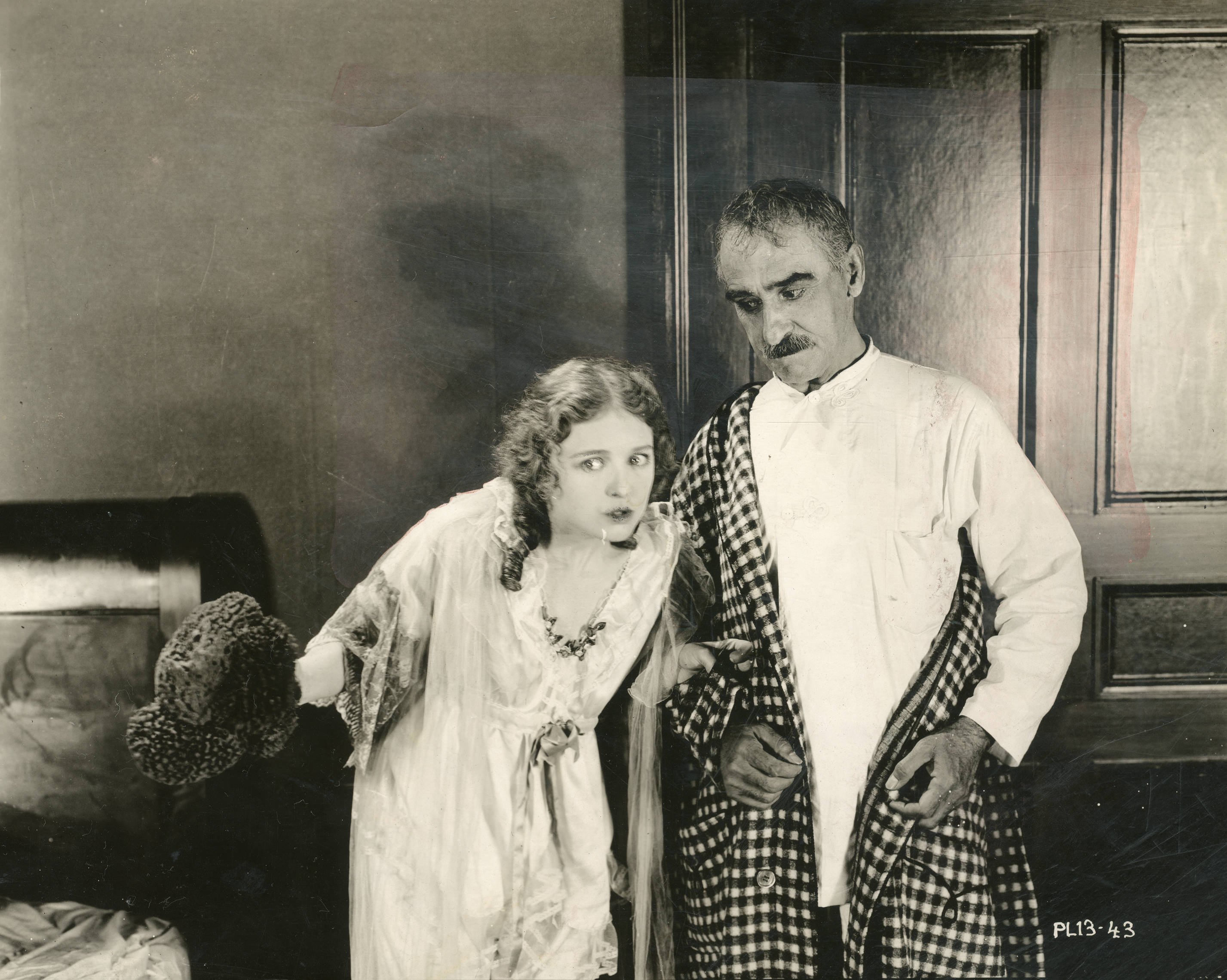 A scene from Her Country First (1918) which played at the Coliseum Theater, Seattle. Includes Vivian Martin. Date stamped Sept. 26, 1919. Subjects: motion pictures, actresses